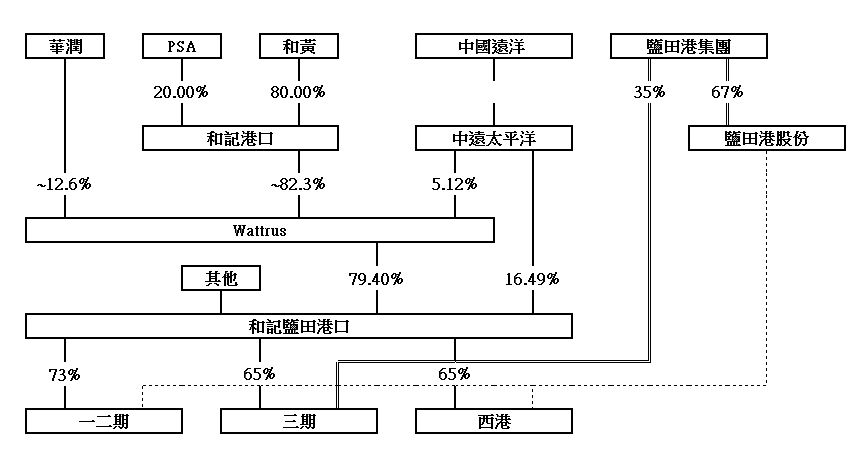 Corporate Structures of Yantian Port, as of 2010